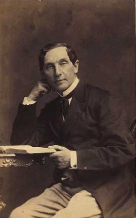 Jens Frederik (Friderich) Horsens Block (1816-1892), Danish consul and estate owner